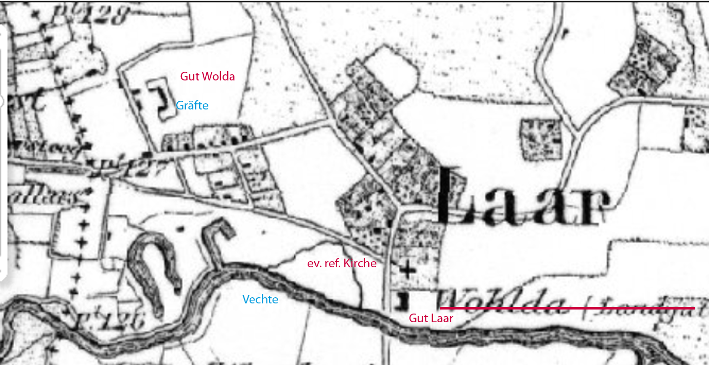 topographic map for the Dutch military b/w (dutch: Topografische militaire kaart, Bonneblad zwart/wit) created between 1850 between 1863 map number: 22